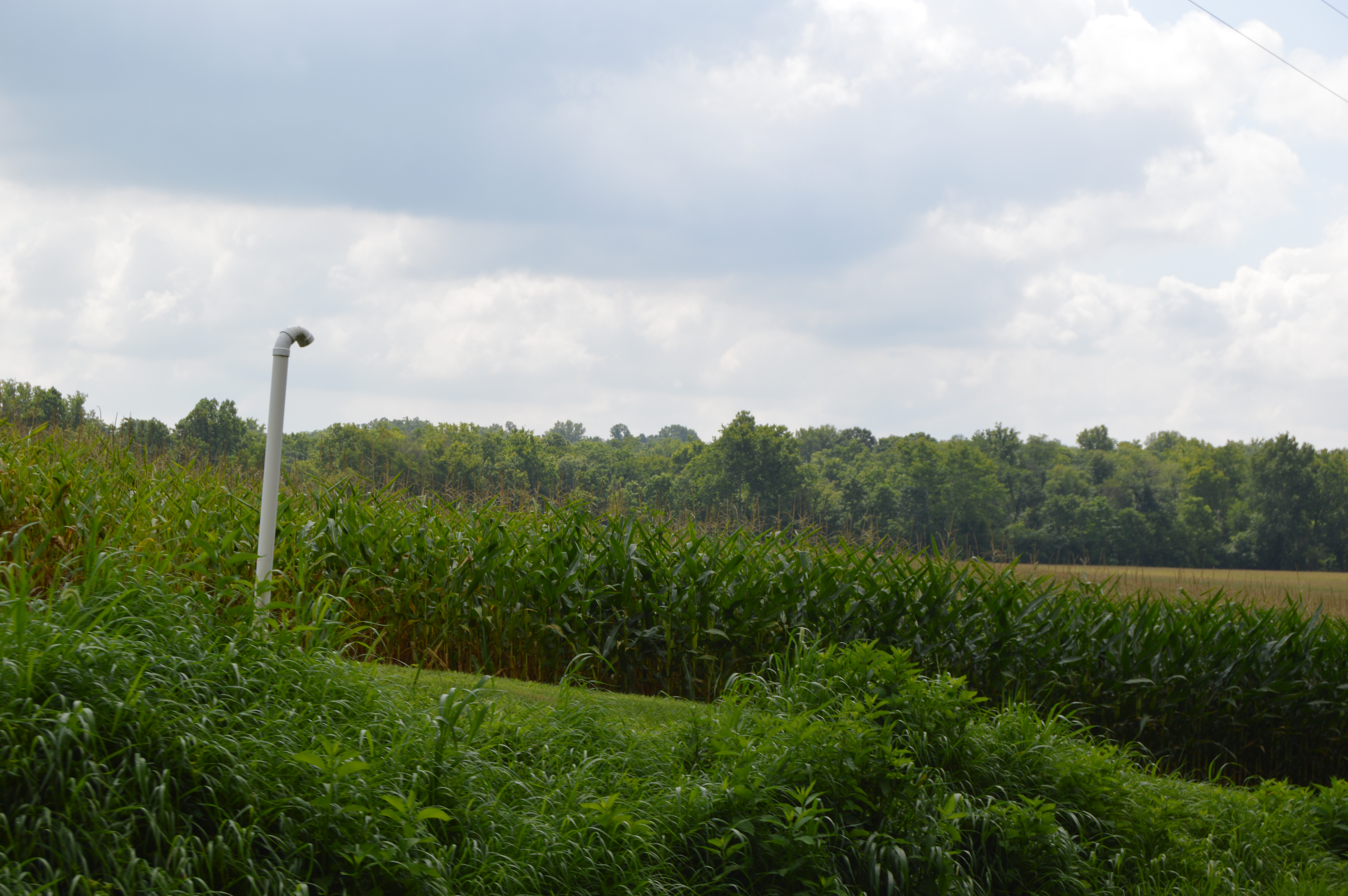 Distant view, looking east from Gun Barrel Road, toward the Winegardner Village archaeological site; it lies among the trees beyond the cornfield. Located north of Rushville in Richland Township, Fairfield County, Ohio, United States, the site is listed on the National Register of Historic Places.